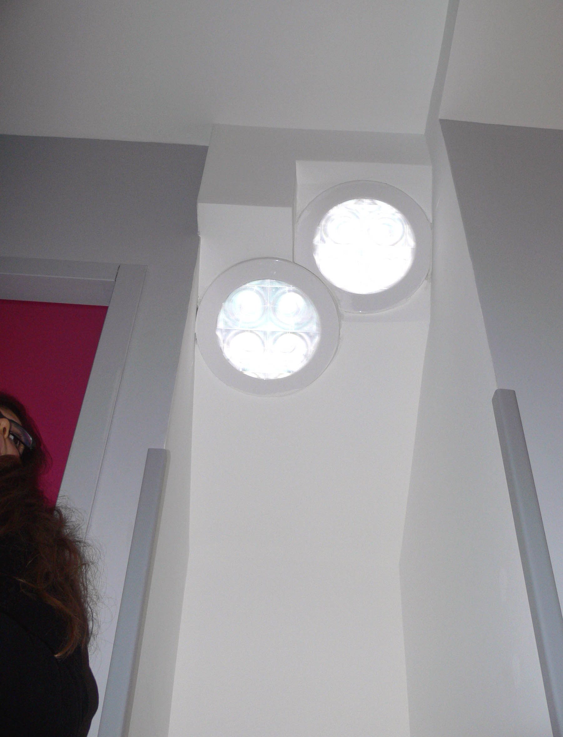 Detail of Architectural light shelf in a Retirement home (with ecological & energy efficiency building), in Trith-Saint-Léger, in north of France, (dept : 59) in Nord-Pas-de-Calais region, made with ecological principles.